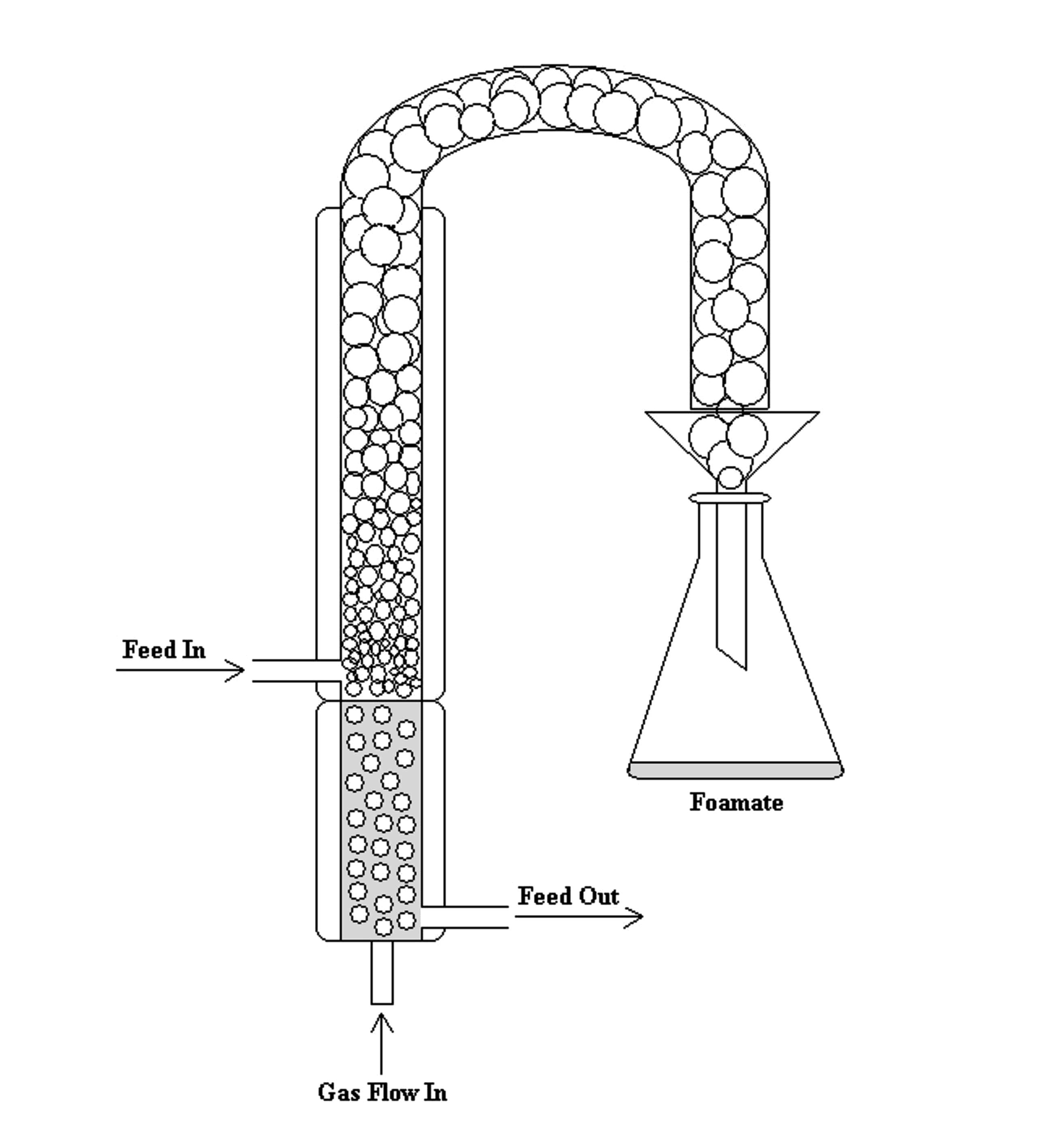 Diagram of a basic continuous foam fractionator